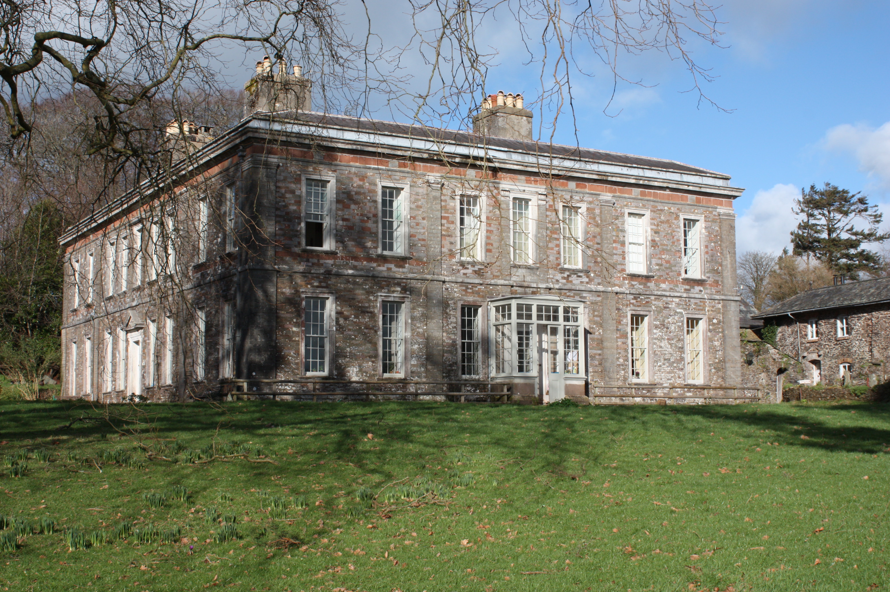 Photo: H. van Koten